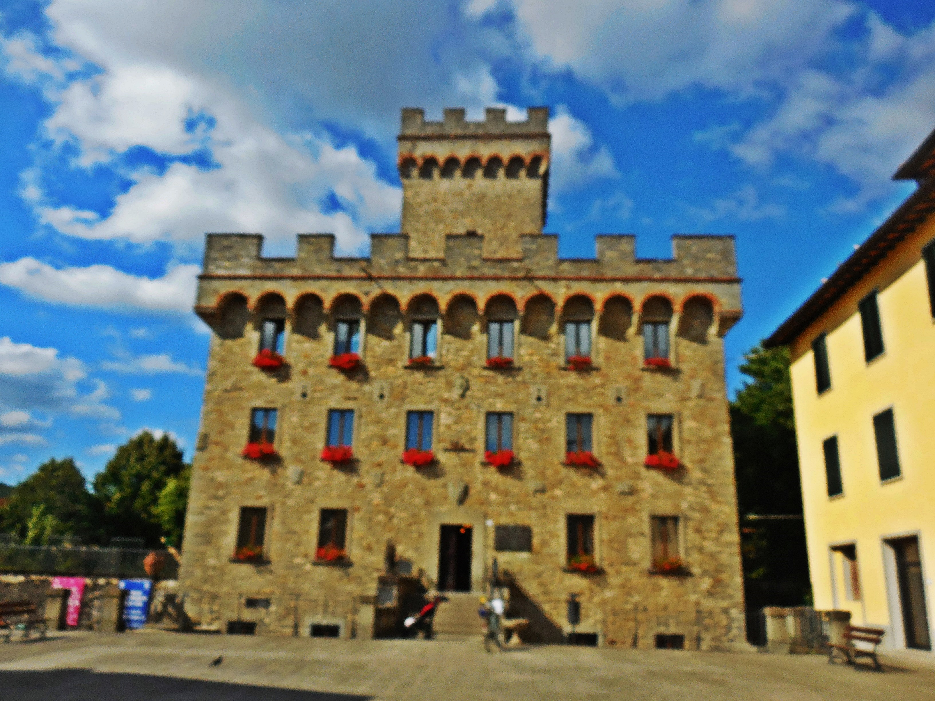 facade